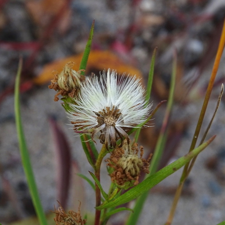 Symphyotrichum robynsianum (Robyn's aster) seedhead. White Lake, Thunder Bay District, Ontario. original